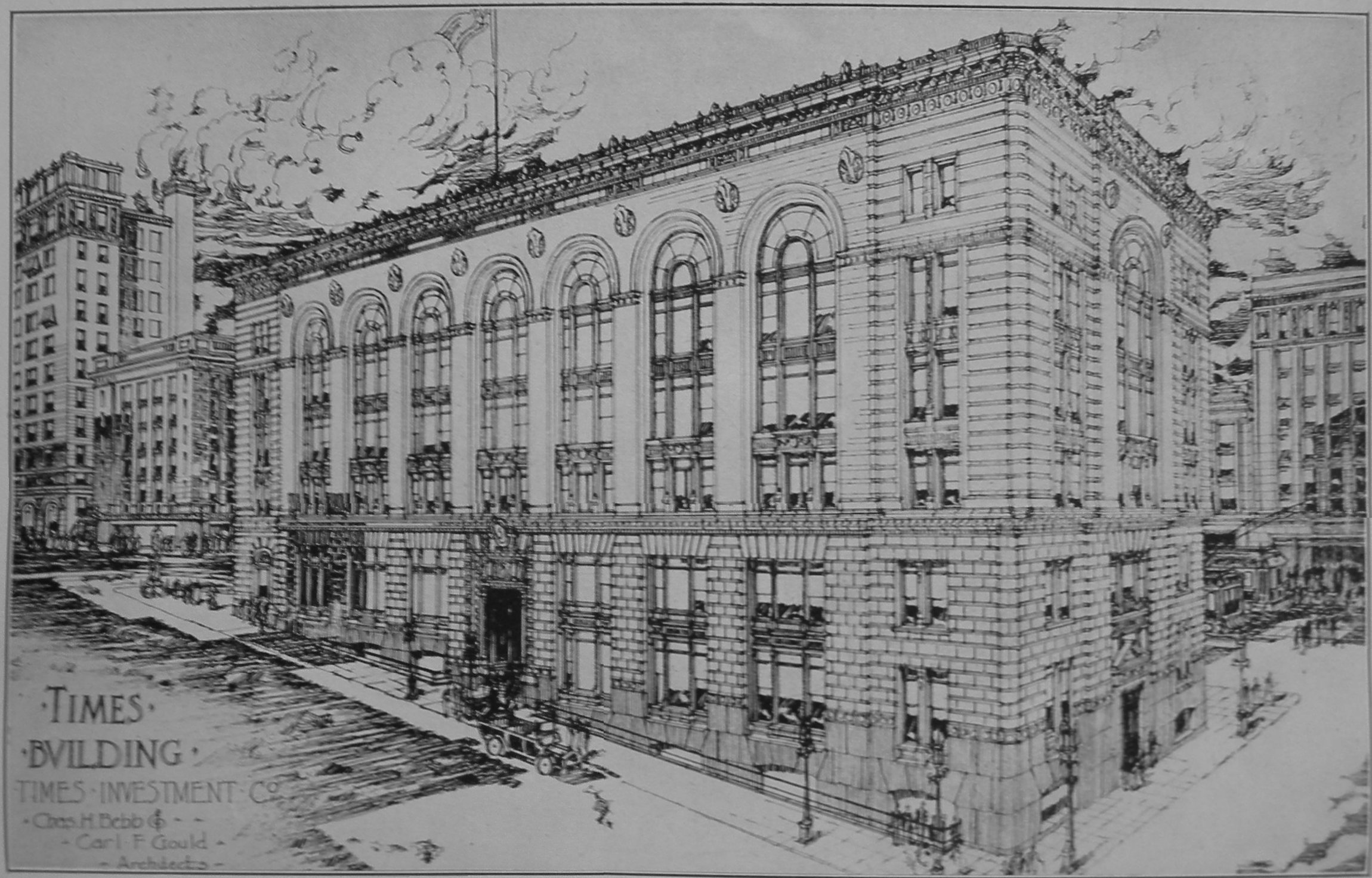 Architectural sketch of the old Seattle Times building in downtown Seattle, Washington. The building is now on the National Register of Historic Places.